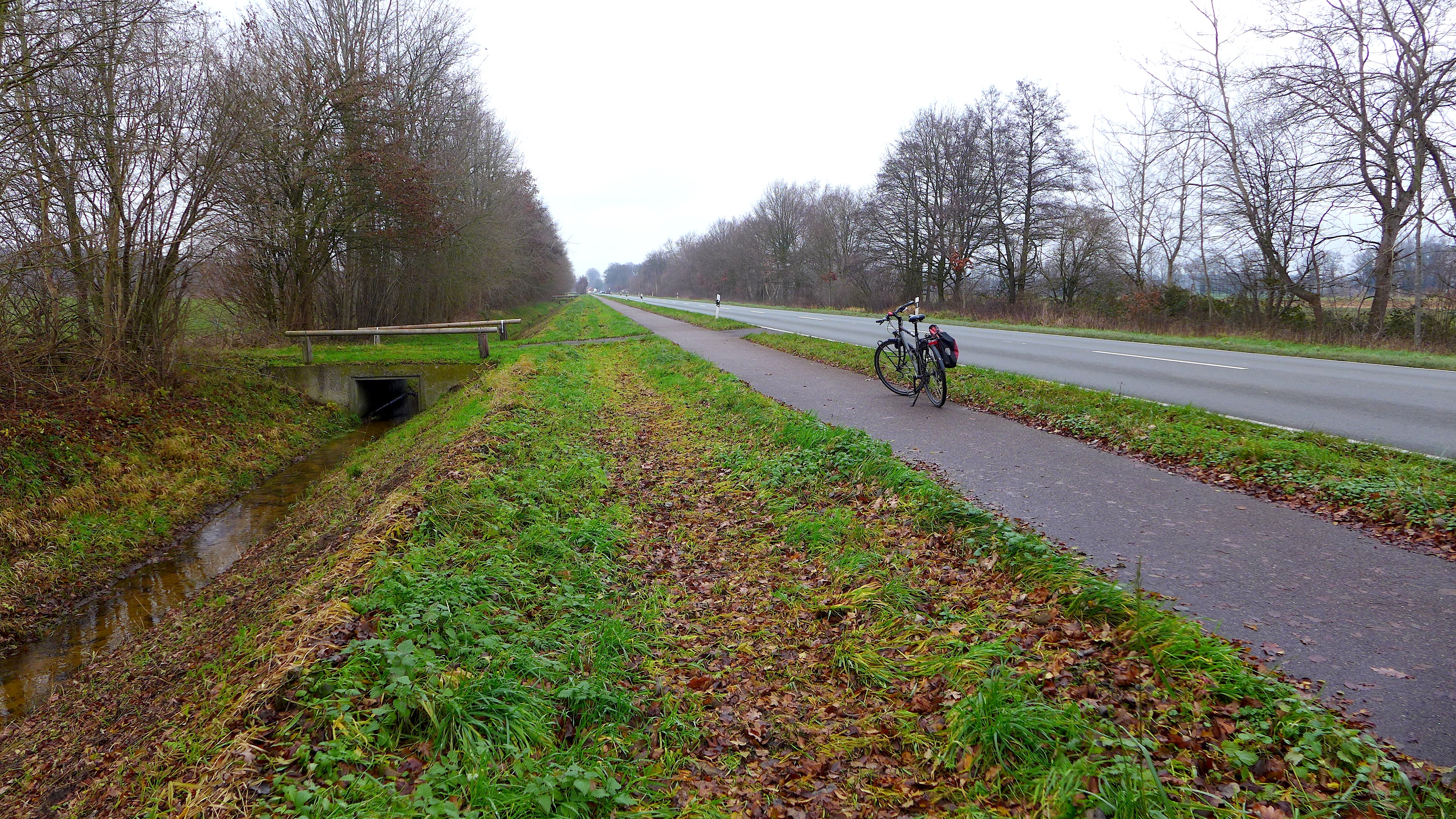 District road K 17. District Borken, North Rhine-Westphalia, Germany.